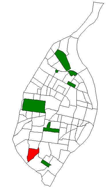 Map of St. Louis neighborhood #06